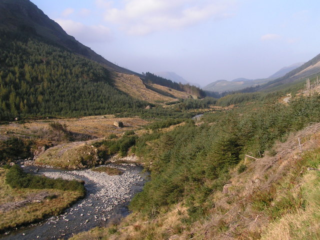 River Liza, Ennerdale Looking downstream from the track to Black Sail.